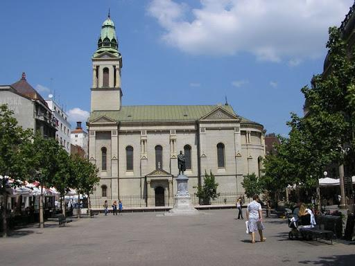 Orthodox cathedral of the Transfiguration of the Lord in Zagreb